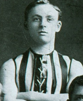 Photograph of Vic Hambridge in 1906